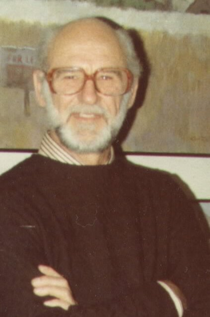 Kenneth Andres Reid, art director, production designer and father of four.